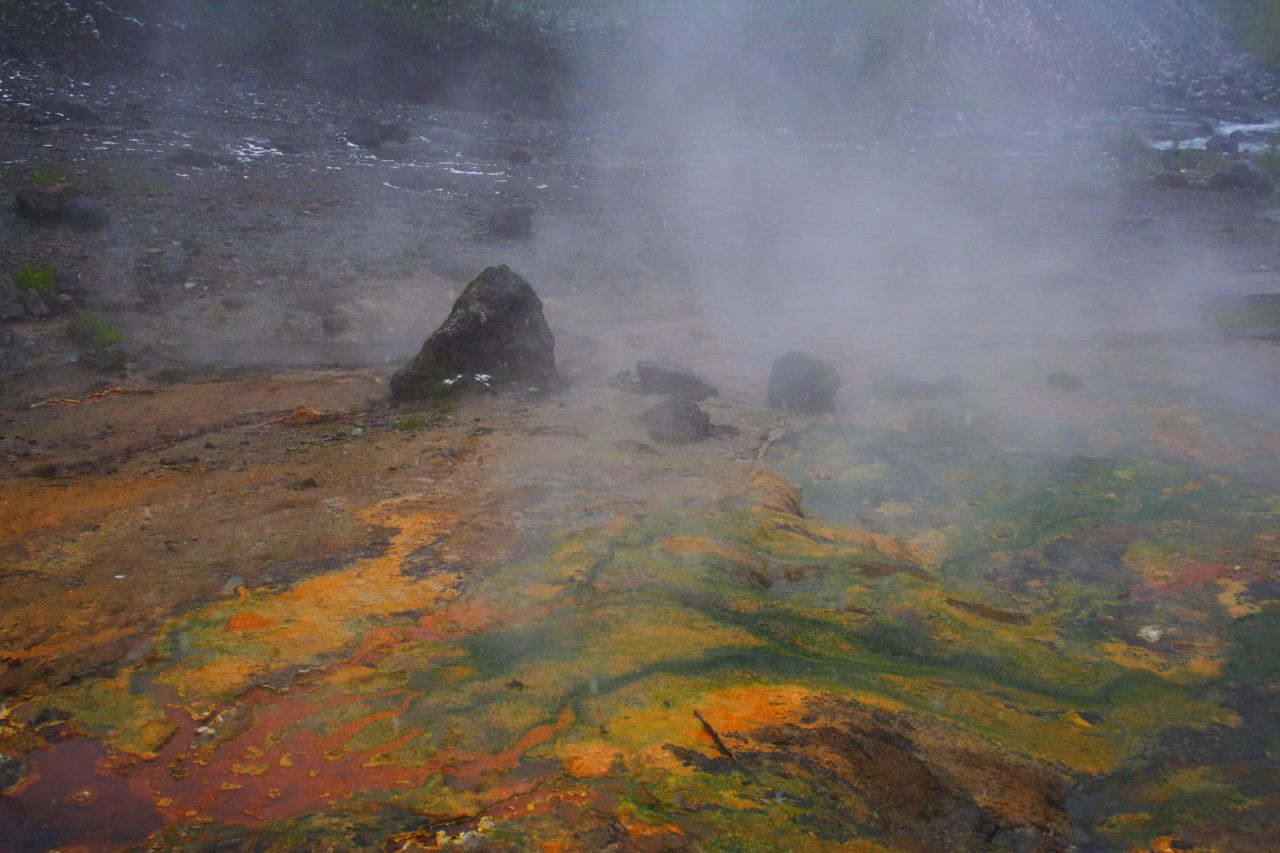 Sorgente termale Chang bai shan 长白山, China, June, 2009